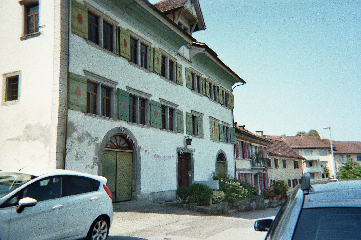 Brüggershof